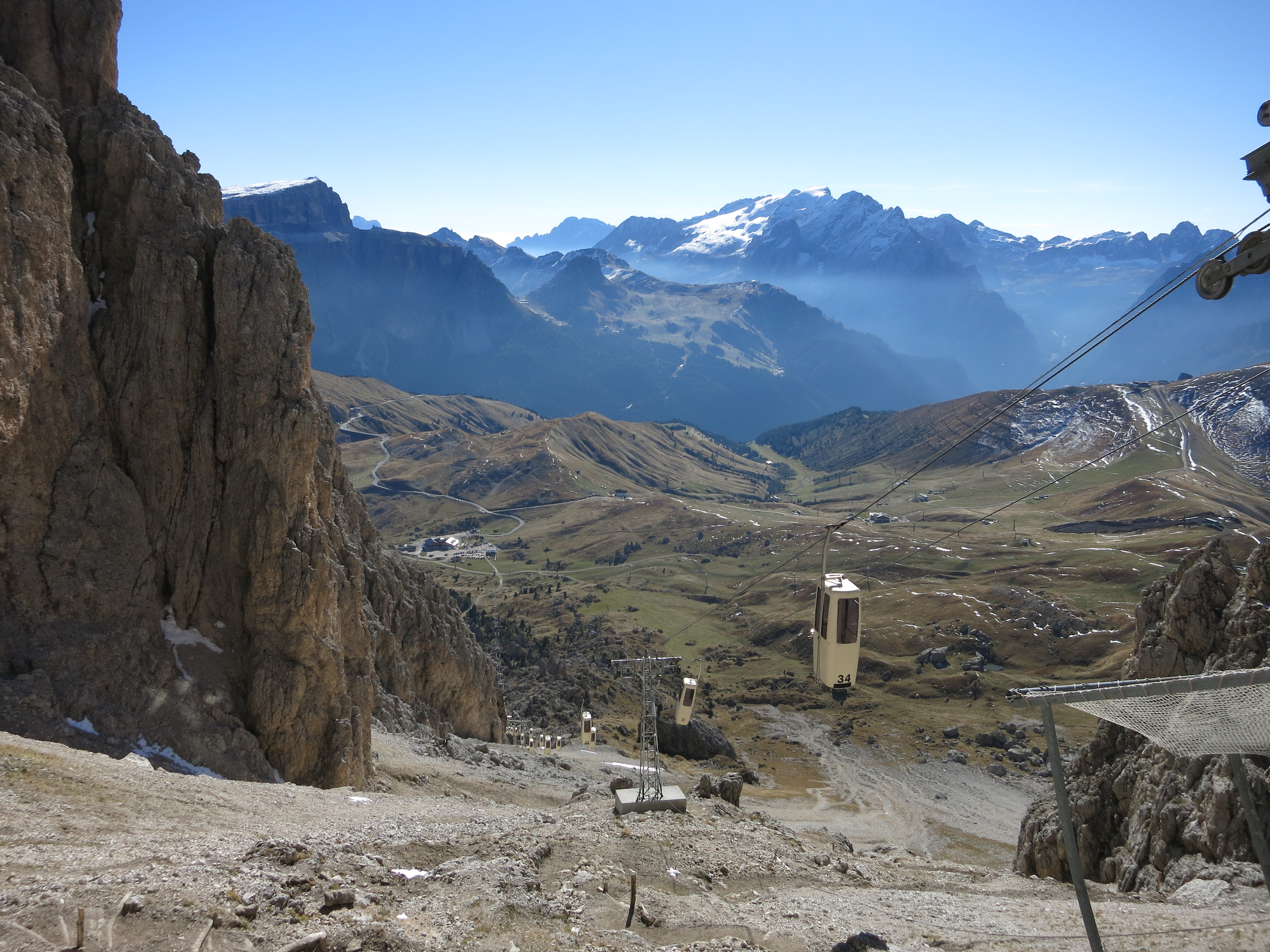 Cable car to the Toni Demetz hut, view to he Sella pass, South Tyrol (Italy)